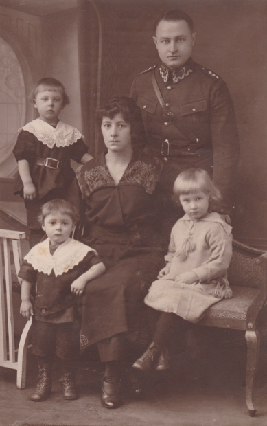 Tadeusz Matysek with wife and their children. Top left - Zygmunt, bottom left - Stanislaw, bottom right - Maria.